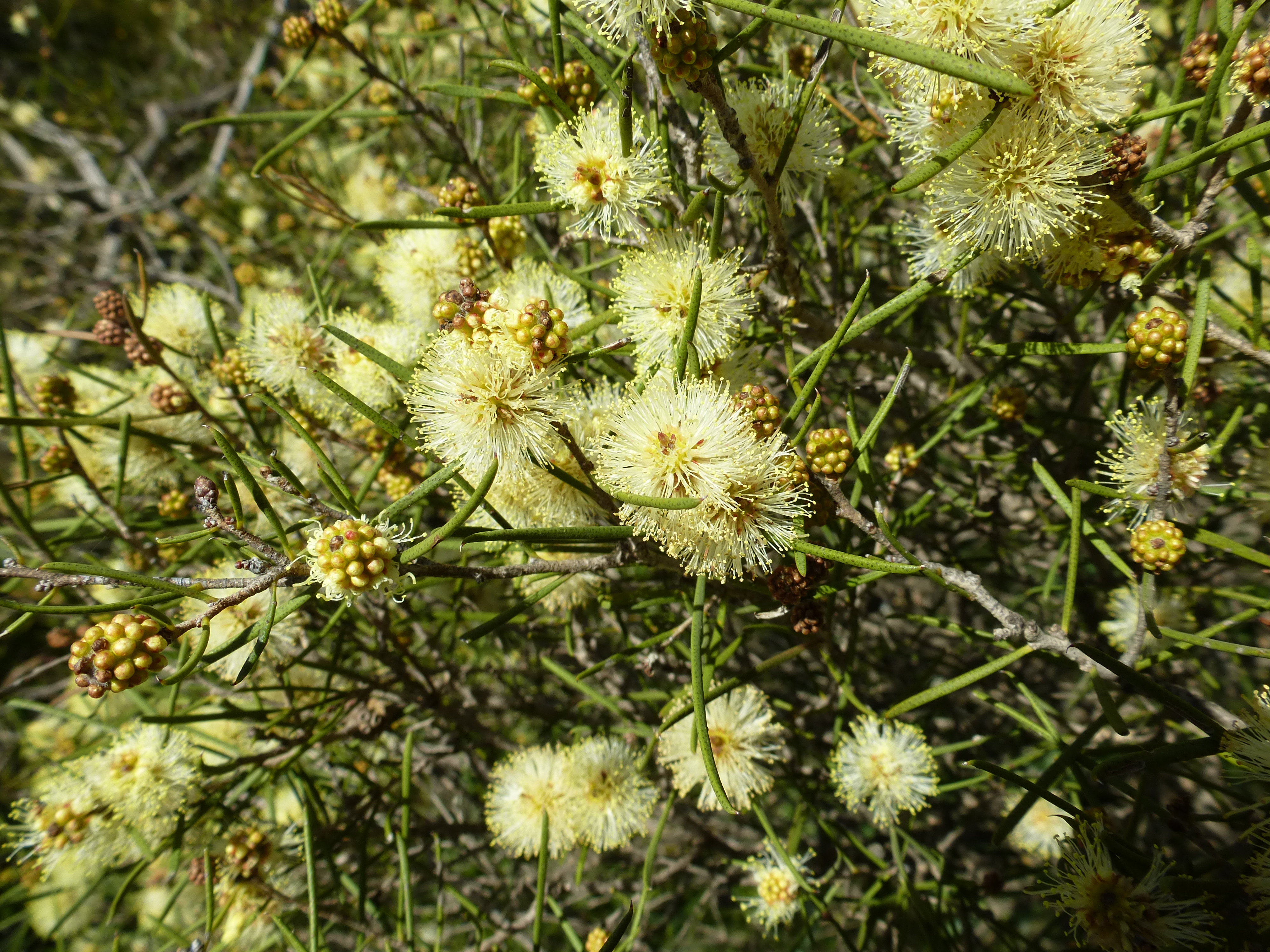 Melaleuca concreta growing along White Peak Road near Geraldton